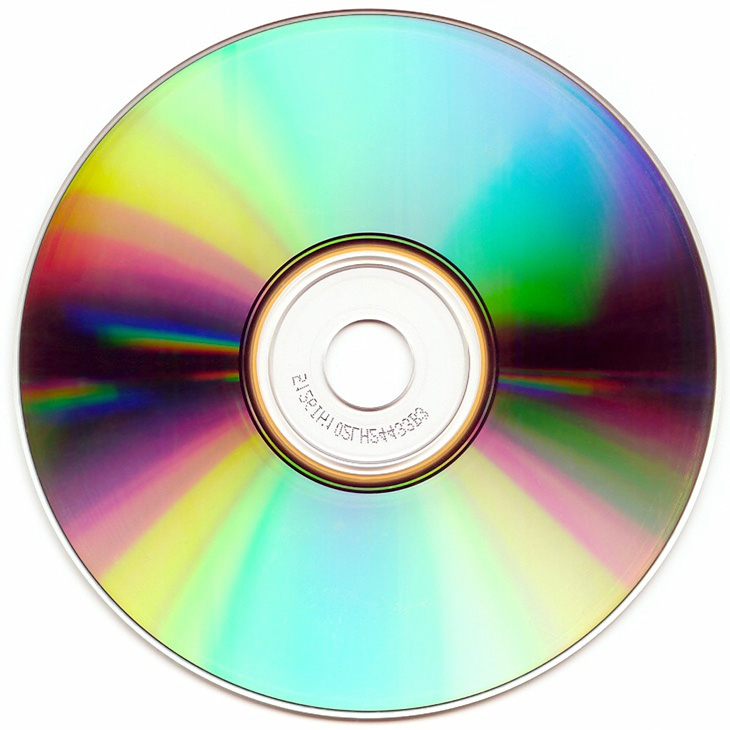 Flat view of a CD-R, with interference colours. Sorry about the dust fibres. Saved as JPG with IrfanView at 90% quality. Scanned by me with an HP ScanJet 4400c, and run through ACDSee's "auto-level" filter.